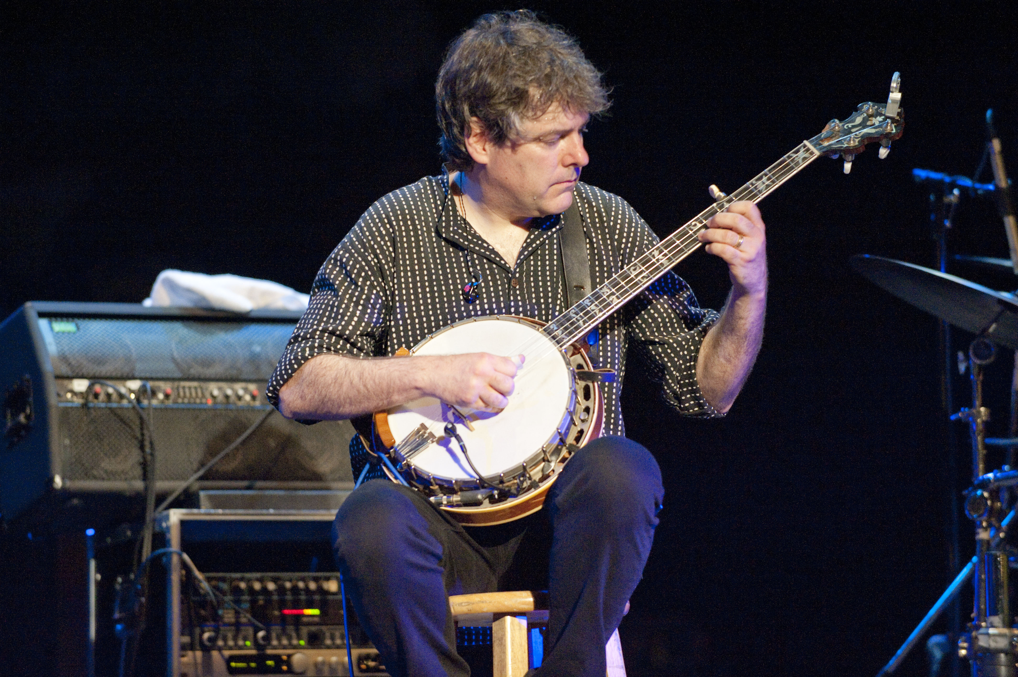 Bela Fleck plays with the Flecktones at North Carolina Museum of Art's amphitheatre